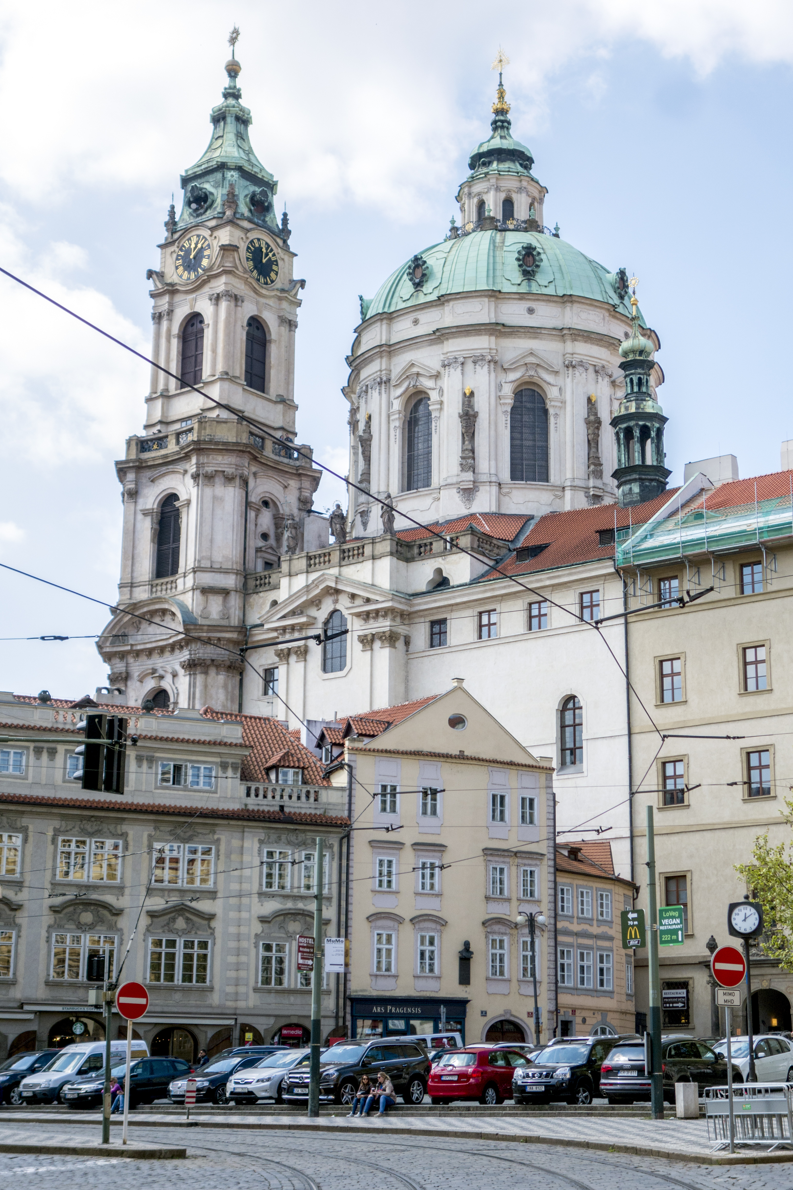 Church of Saint Nicholas in Malá Strana